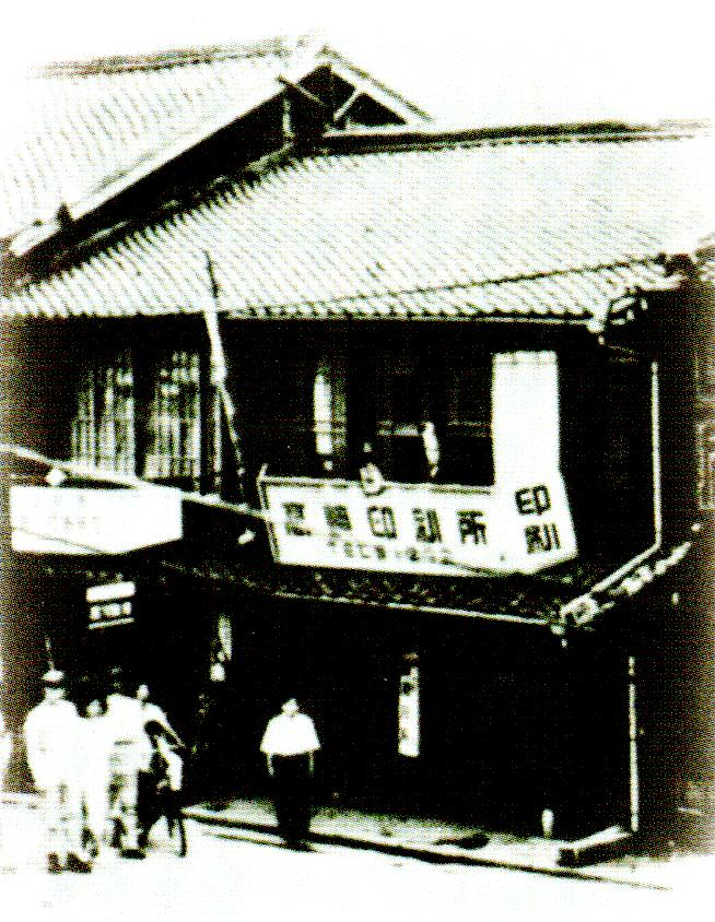 Takasaki printing office in the 1930s. This printing office was located in the city of Kokura, now Kokura Kita ward, Kitakyushu.